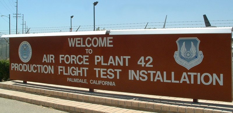 Picture taken by Bernardo Malfitano of . Picture shows one of the gates into Plant 42, a USAF development and testing facility in Palmdale, CA. The aircraft tails sticking up from behind the sign are those of an SR-71 and of the first Blackbird (an A-12 model) at Blackbird Airpark, adjacent to the base.